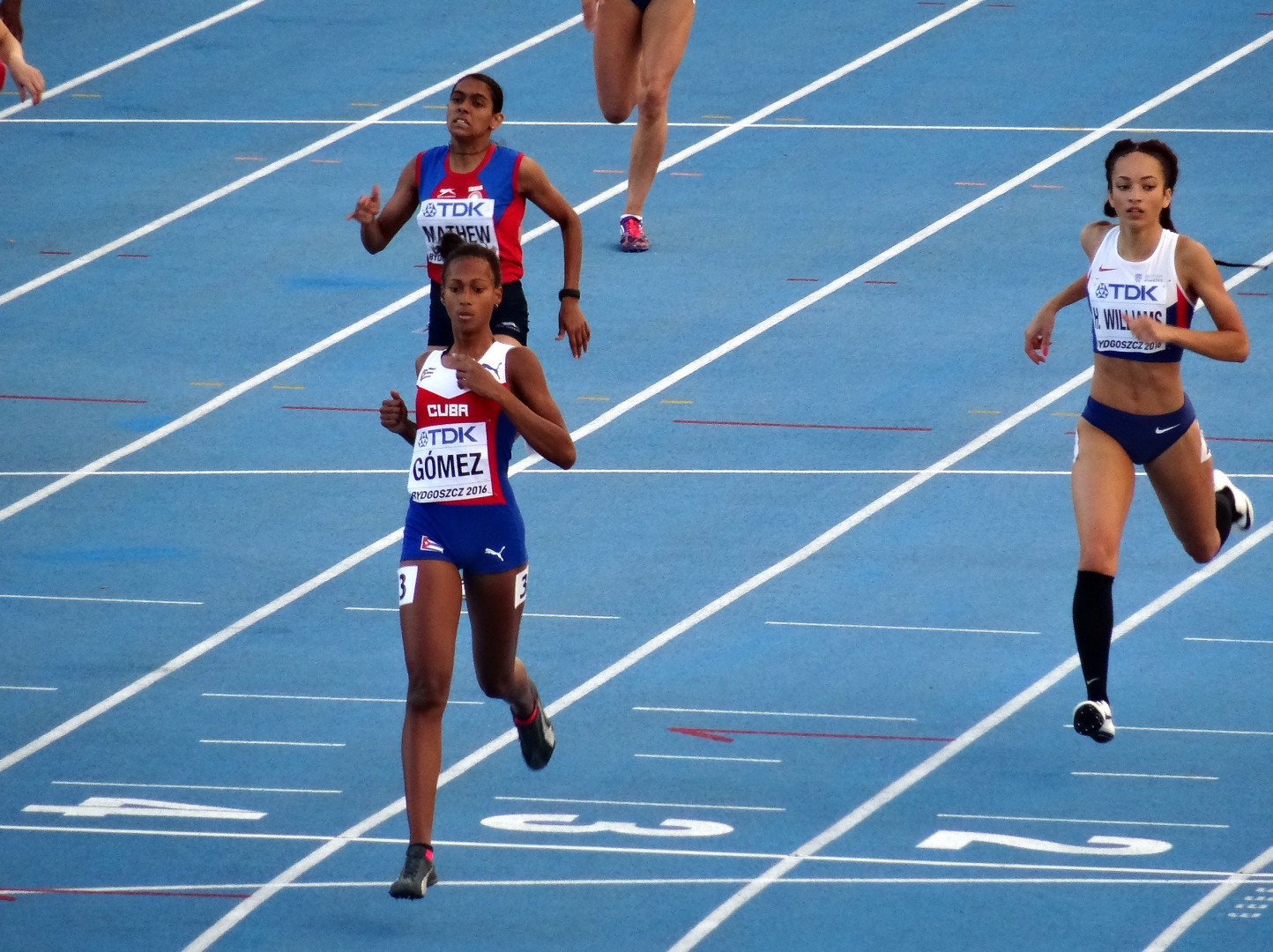 2016 IAAF World U20 Championships in Bydgoszcz, 400m women qualifications